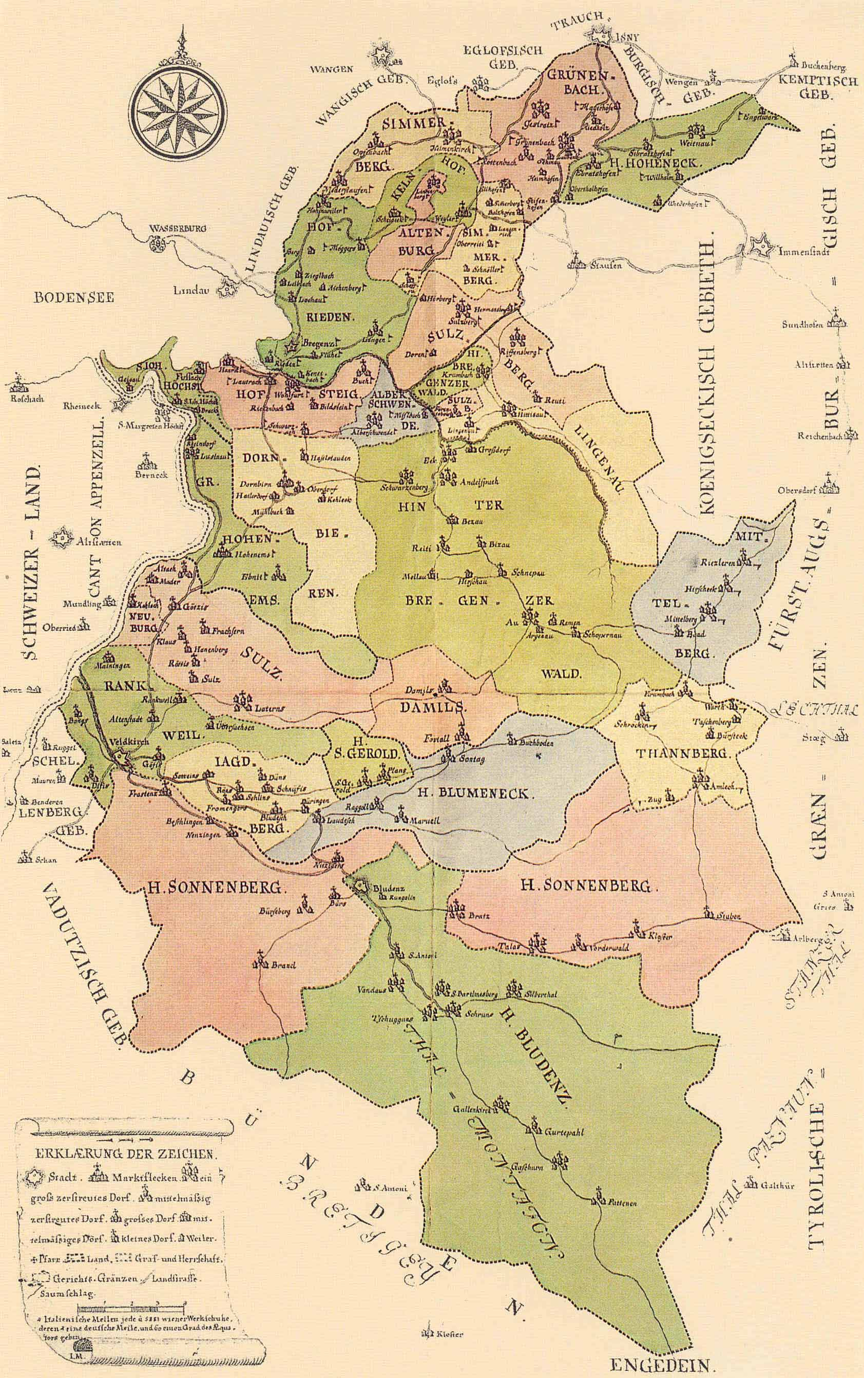 historical map of vorarlberg